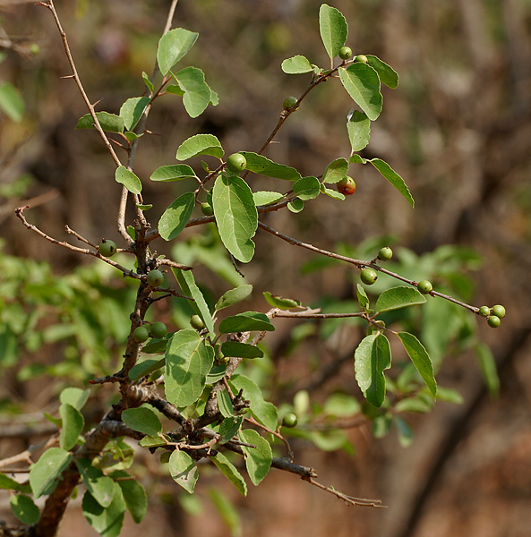 Flacourtia indica - Governor's Plum, Tambat, batoka plum, Madagascar plum, Mauritius plum, Rhodesia plum or athrun in Mahavir Harina Vanasthali National Park, Hyderabad, India.